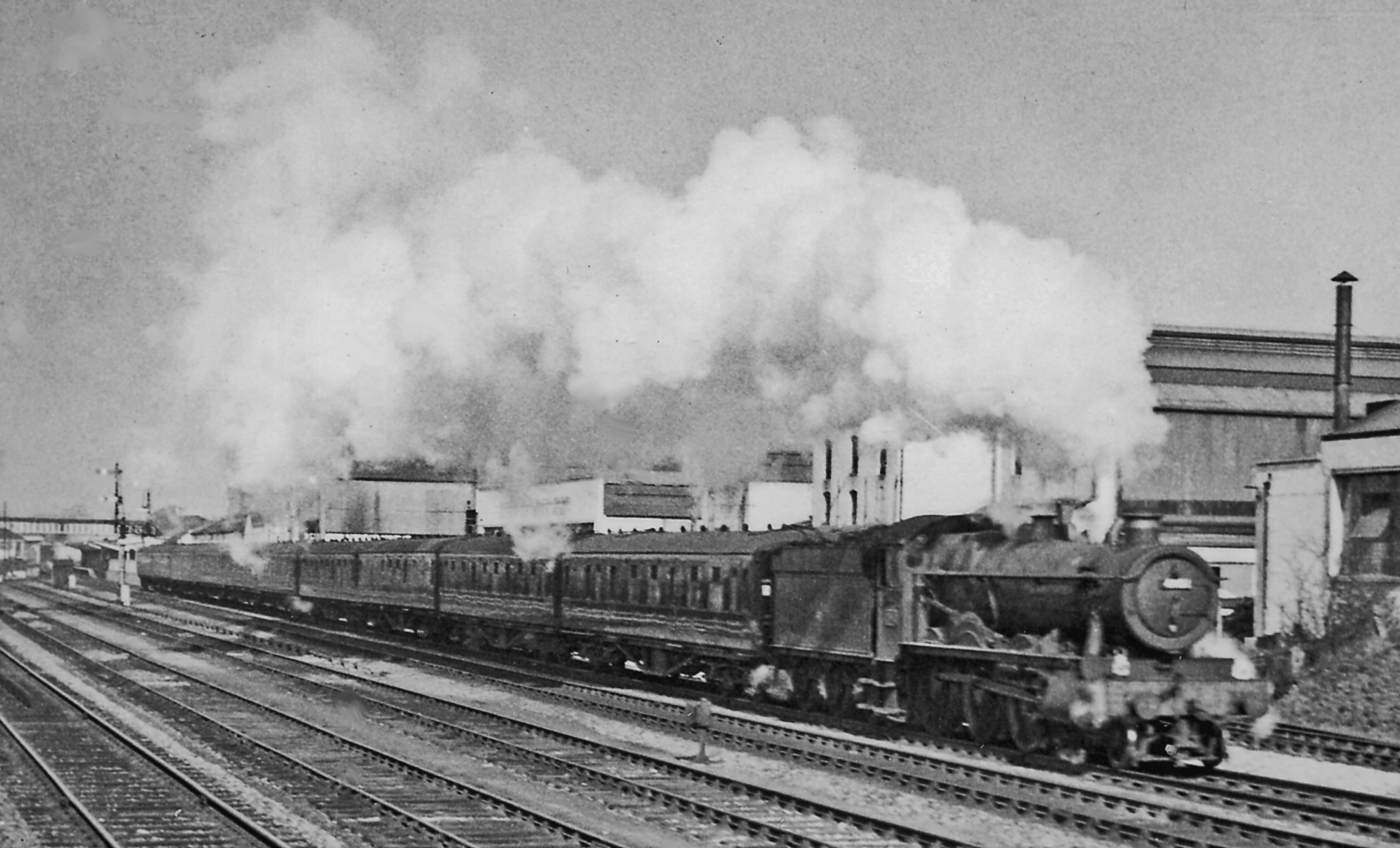 Henley - Paddington train leaving Slough. Everyday scene, view westward, towards Reading etc. on the ex-GW main line. Seen from a Down express, the 08.38 Henley-on-Thames - Paddington, which joined the main line at Twyford, is headed by Collett 4-6-0 No. 4951 'Pendeford Hall' (built 7/29, withdrawn 6/64).